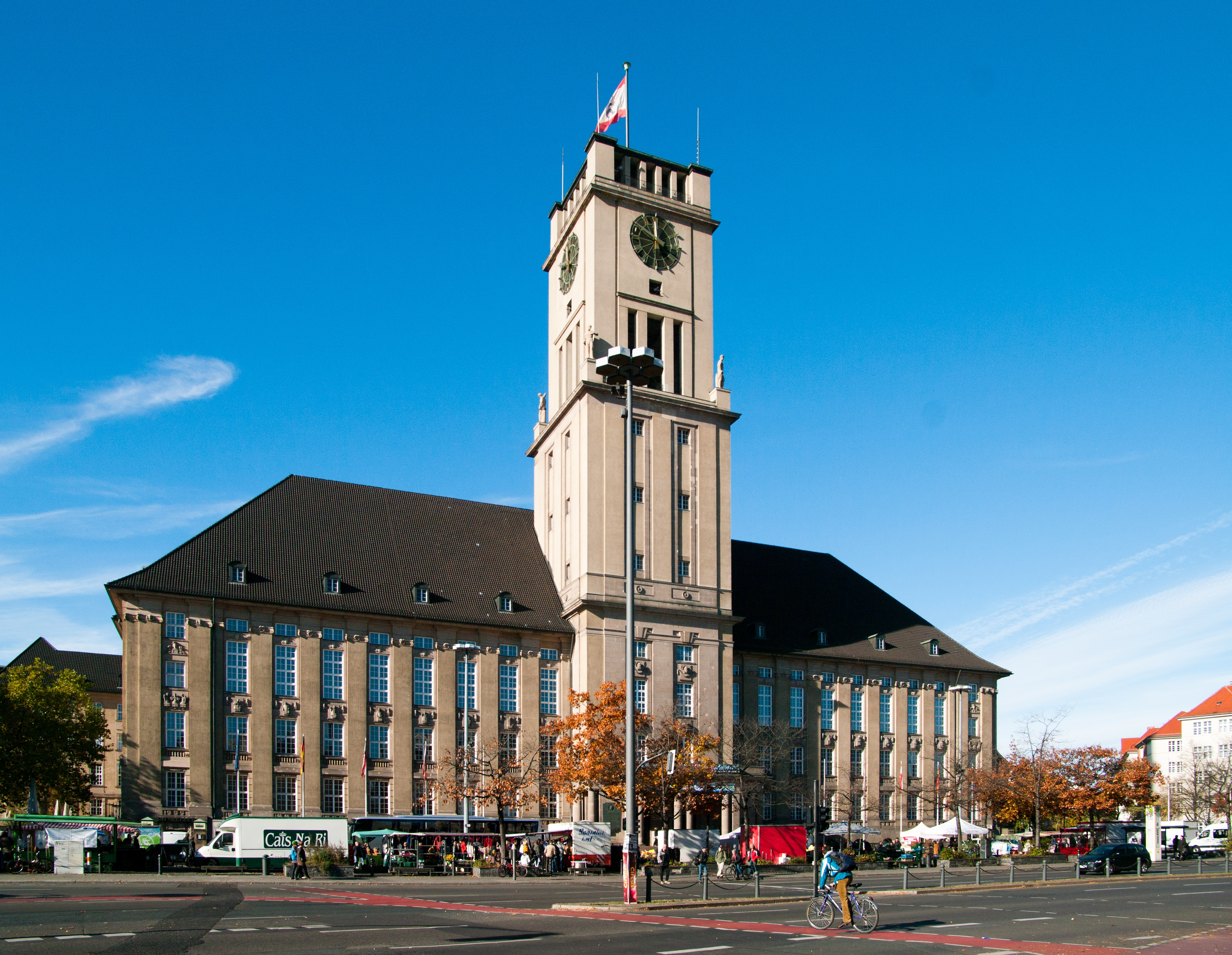 Berlin-Schöneberg, Schöneberg city hall, classic view. Before the building: the farmers market